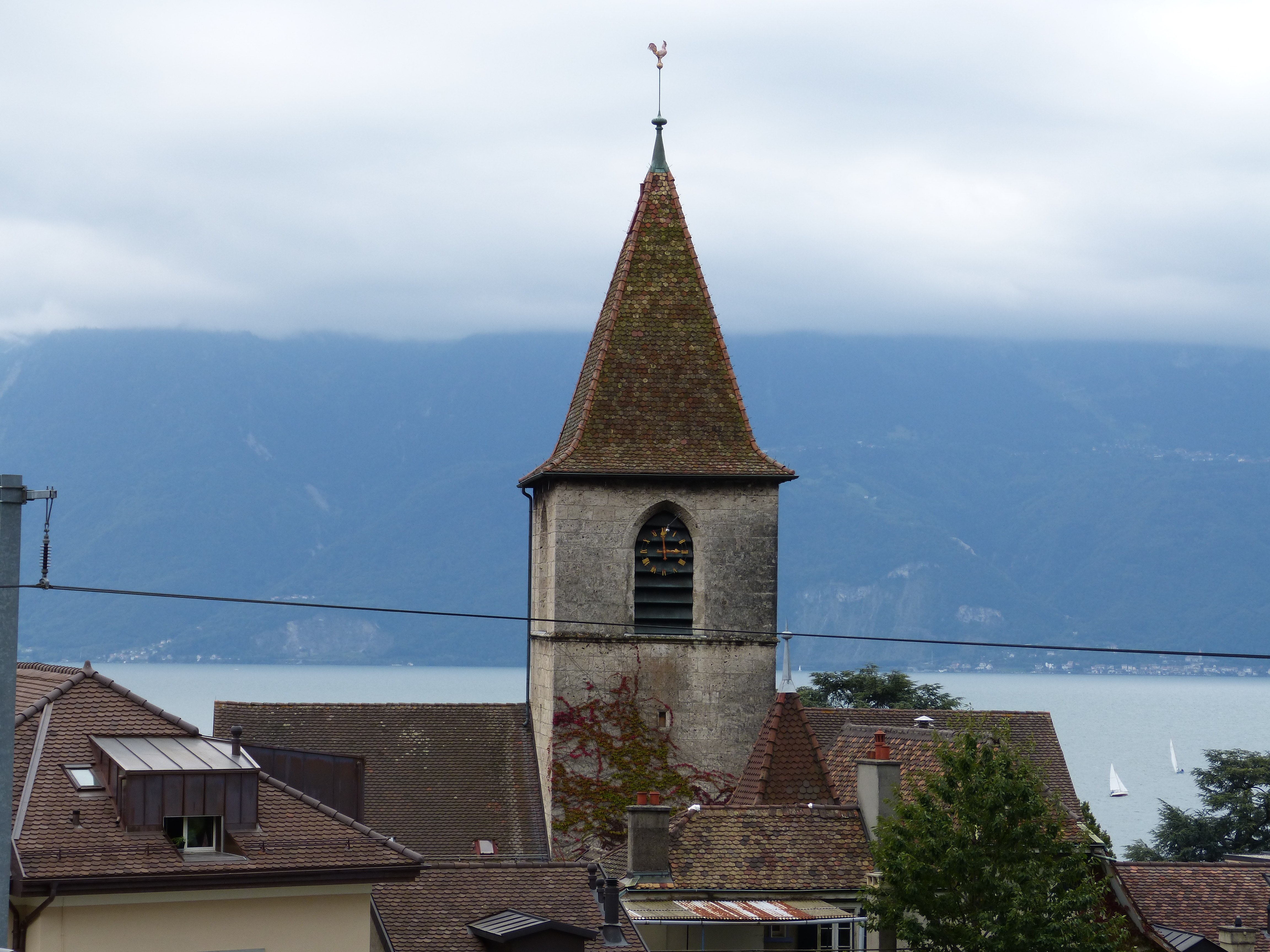 Bell tower of the temple of Cully.